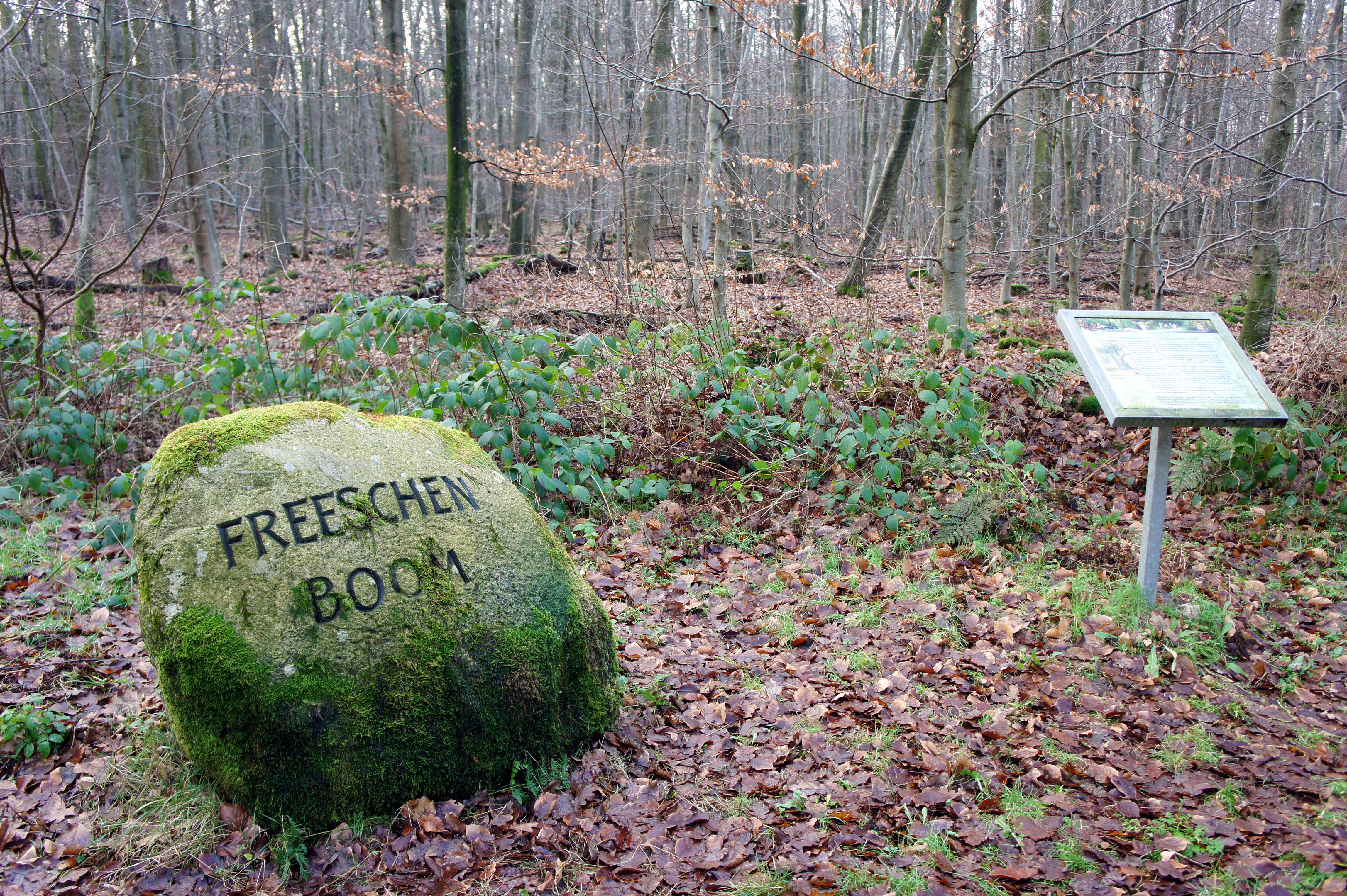 Freeschenboom in Stühe